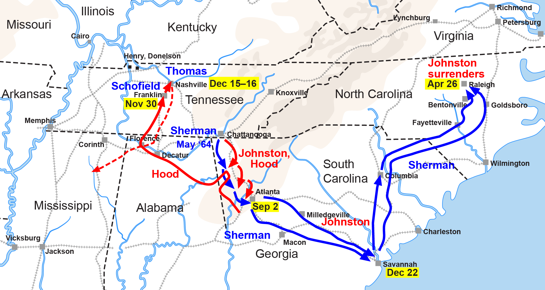 Map of the Western Theater of the American Civil War, actions from Chattanooga to the Carolinas.